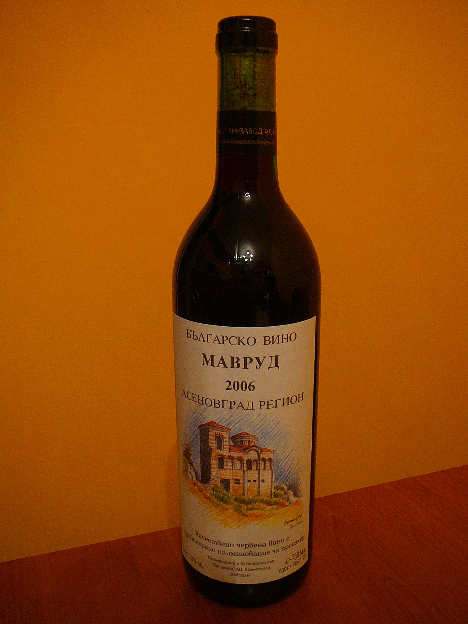 Mavrud - bulgarian red wine